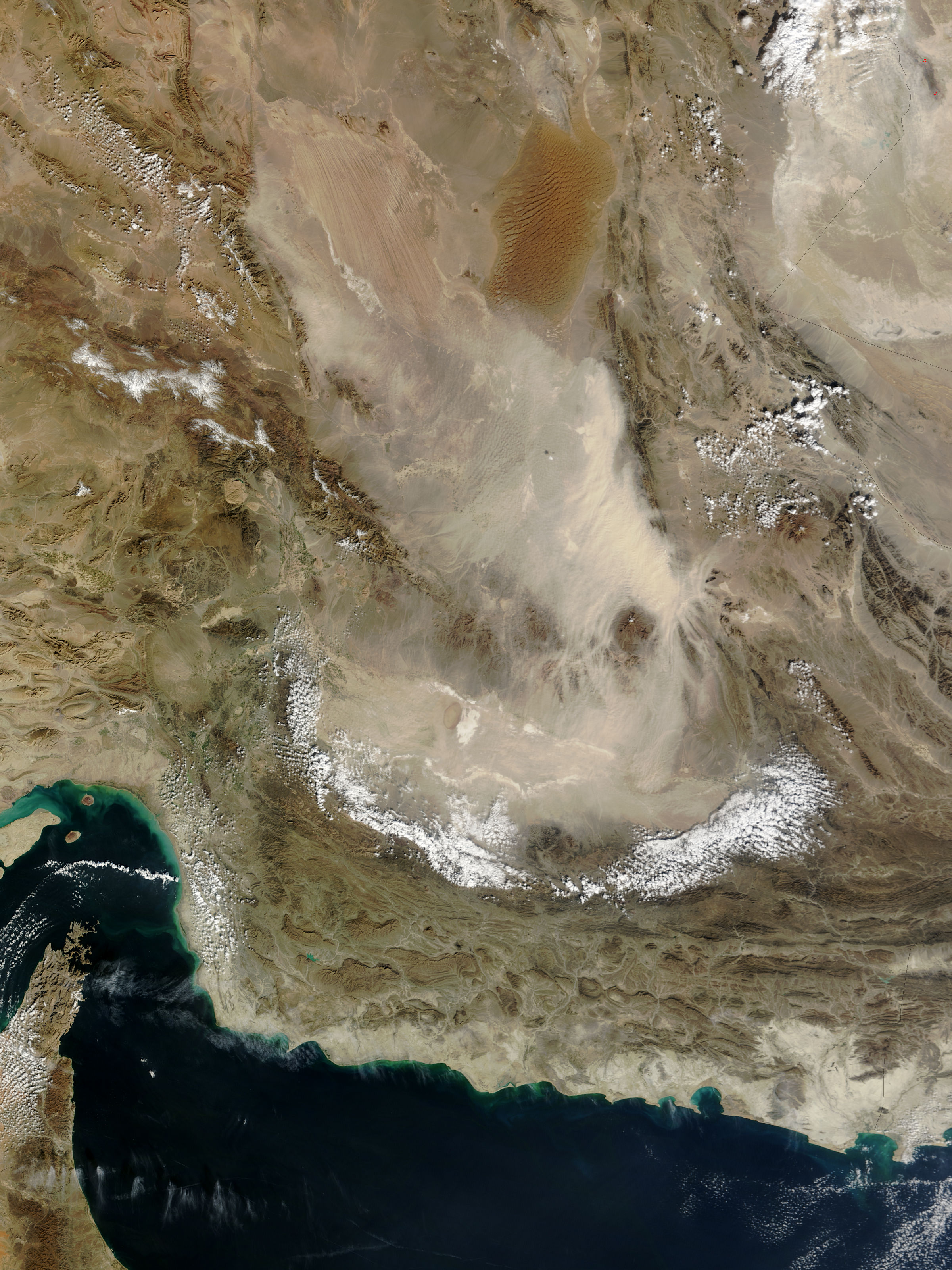 Pale tan dust billows over the Dasht-e Lut in eastern Iran, in this photo-like image from the Moderate Resolution Imaging Spectroradiometer (MODIS) on NASA’s Terra satellite. In the thickest part of the storm, the dust cloud blurs the texture of the land beneath it, revealing instead the texture of the air in waves and lines. The most distinctive waves surround Kuh-e Bazman, a 3,489-meter (11,450-foot) tall volcano, which rises above the dust cloud. The ripples in the dust are a reflection of turbulence created as air flows around the peak. The dust seeps into the valleys of the mountains south and east of the volcano. The Dasht-e Lut, is a large salt desert in remote eastern Iran. The dust storm blows across the southern desert, leaving clear the distinctive orange dune fields and wind-swept lines in the north.